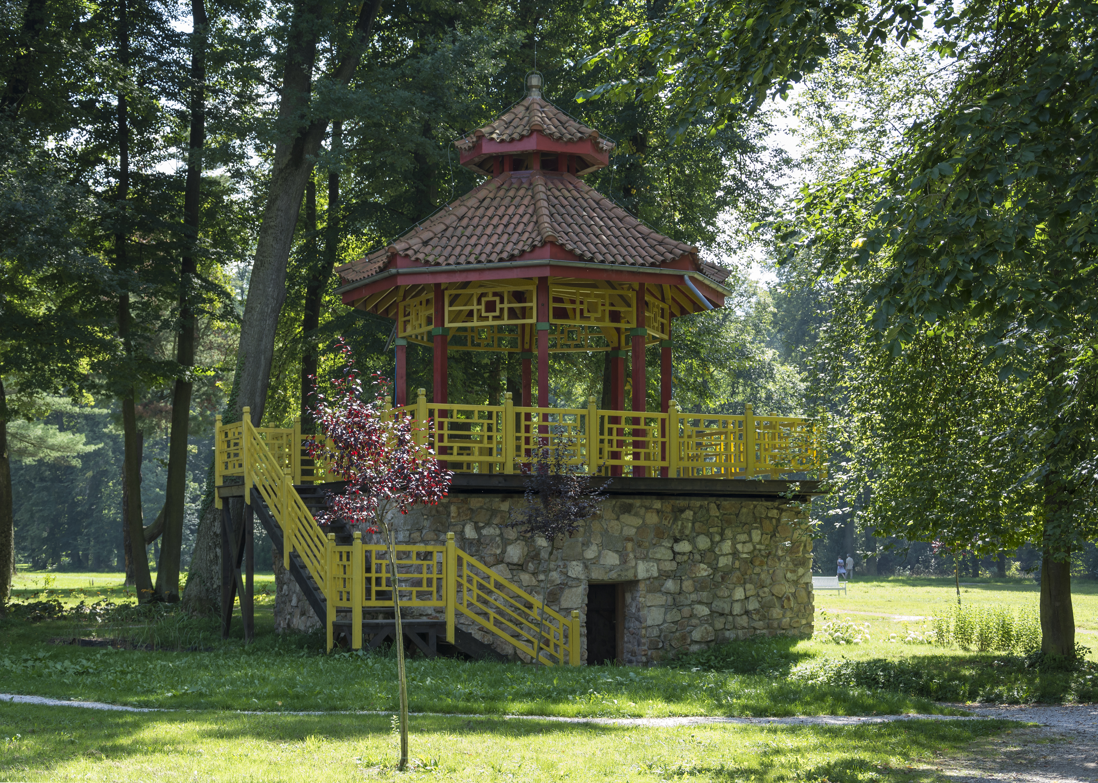 Palace park in Wojanów